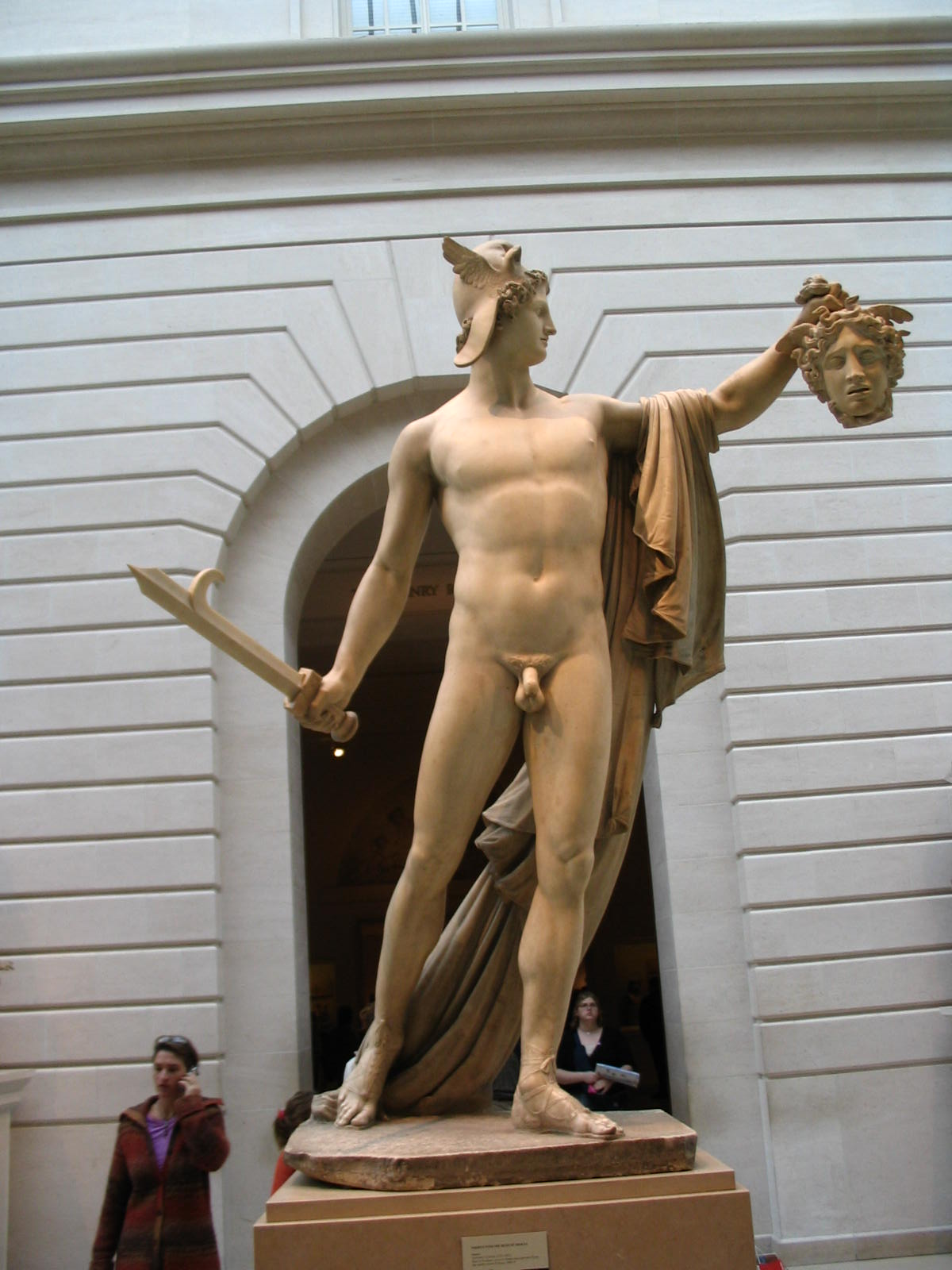 Antonio Canova — Perseus with the head of Medusa the Gorgon, Metropolitan Museum of Art, NY.